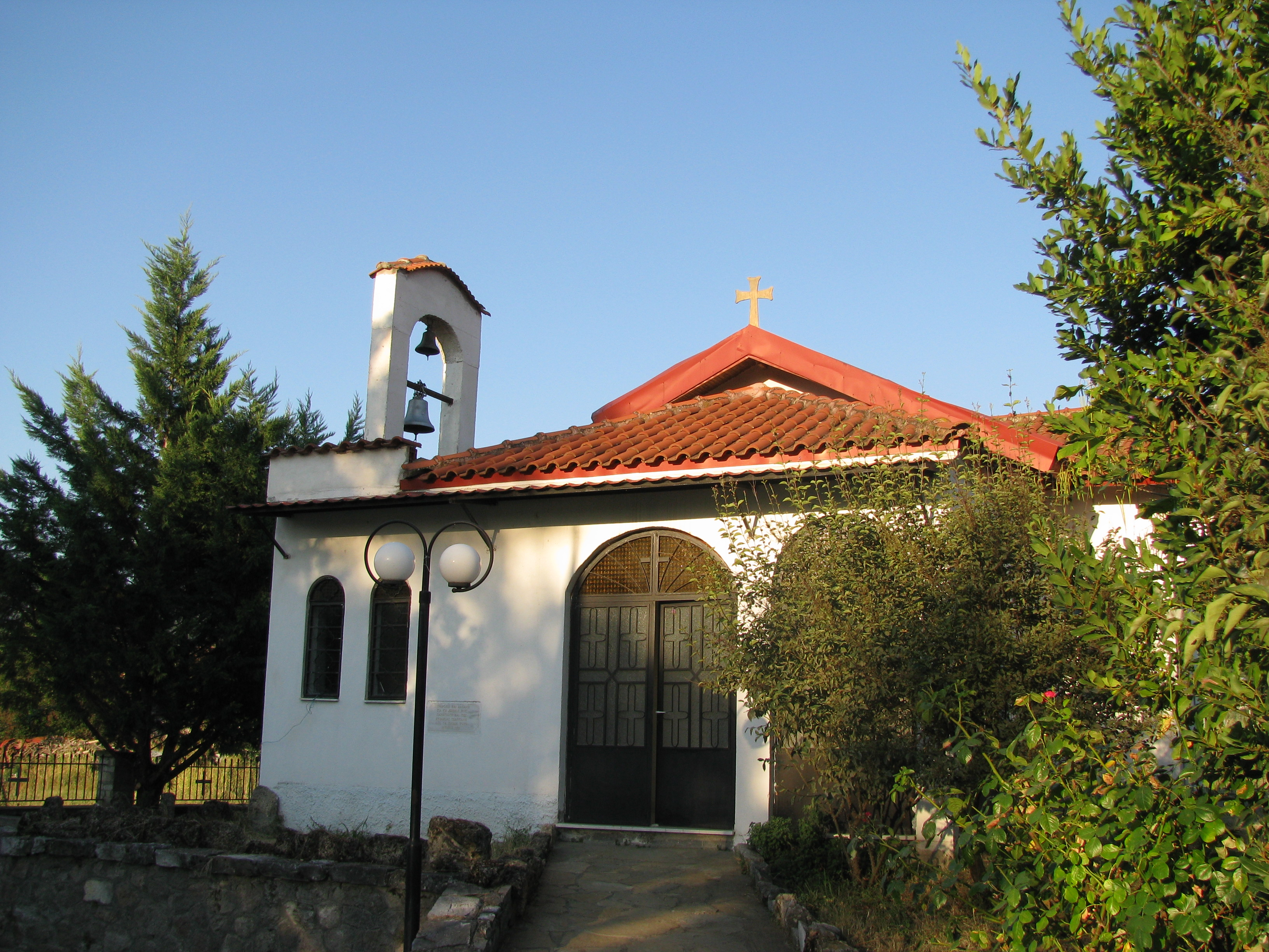 village of Novoseltsi or Neromili, Pella prefecture, Greece